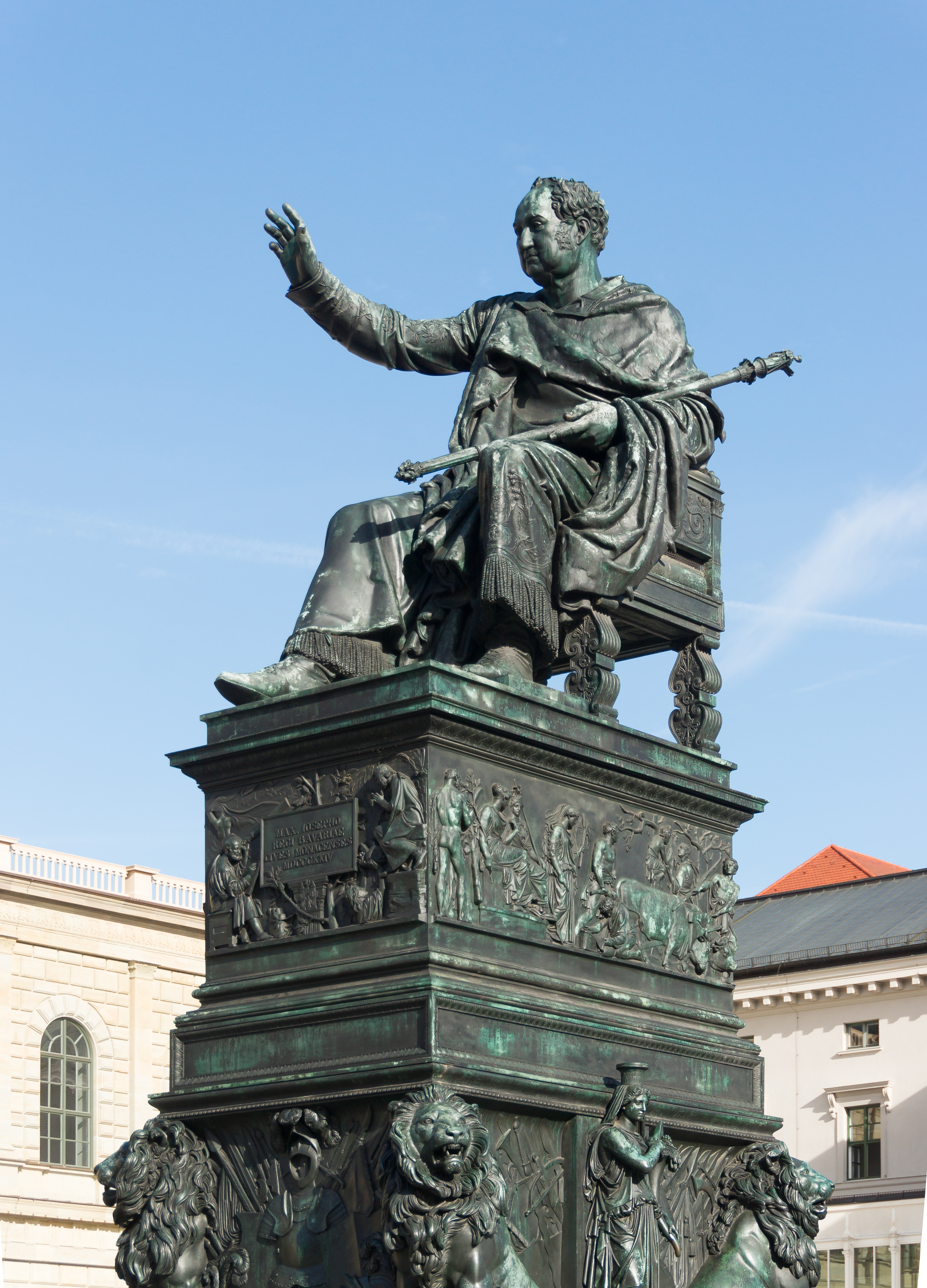 Statue to king Maximilian I. Joseph, Munich, Bavaria, Germany.